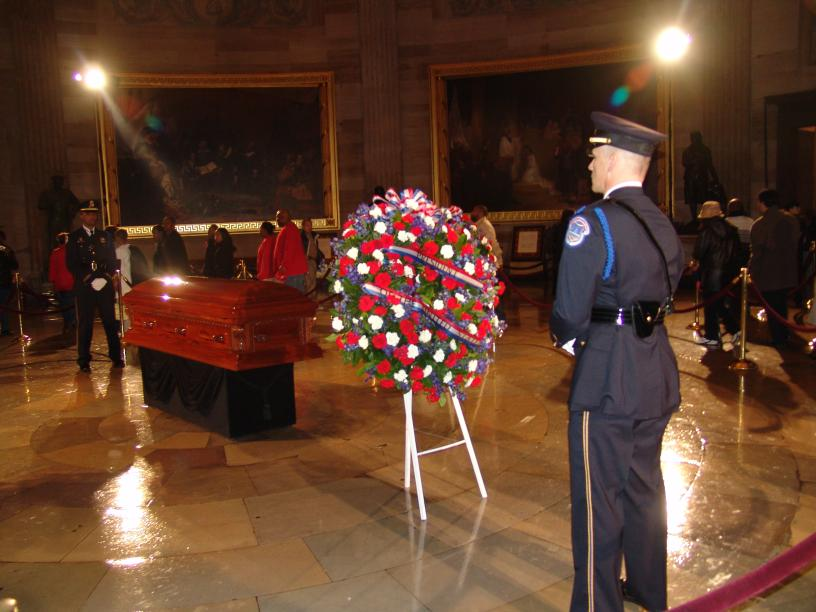 Given the extremely rare honor of lying in state in the U.S. capitol, Rosa Parks became the first woman to ever hold that honor... of the handful of people who have been honored in this way since the beginning of the country.